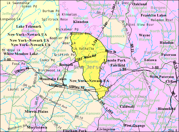 Census Bureau map of Montville